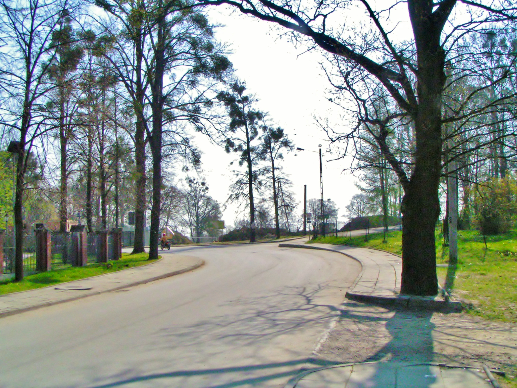 Staszkówka - a village in the municipality Moszczenica in Gorlice County in Lesser Poland Voivodeship; road from Ciężkowice to Moszczenica